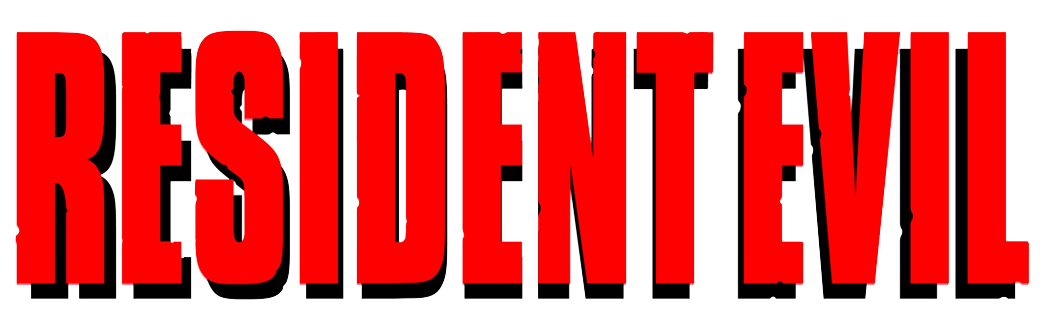 Logo from the first Resident Evil game